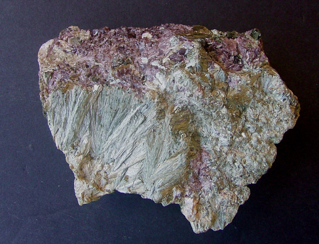 Actinolite, Axinite-(Fe) Locality: Colebrook Hill Mine, Colebrook Hill, Rosebery district, Tasmania, Australia Original description: Pale green masses of radio-fibrous actinolite on ferroaxinite. FOV ~40mm. R Bottrill specimen & photo.